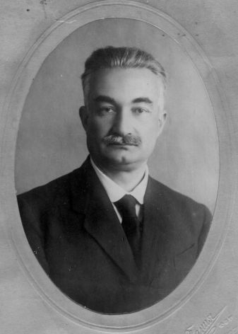 Georgian historican Ivane Javakhishvili